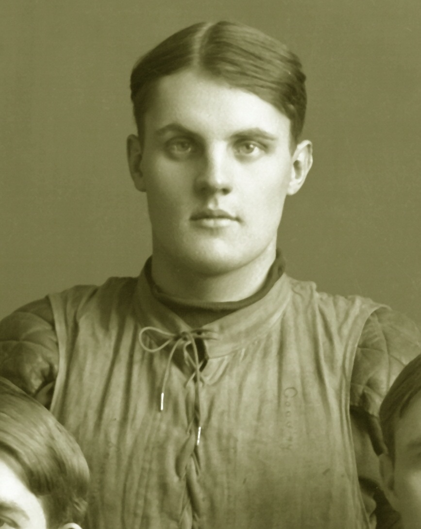 Photograph of Cecil Gooding